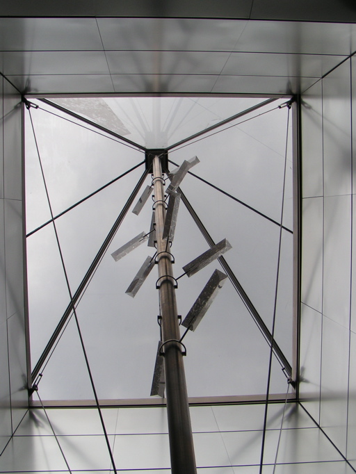 Kongens Nytorm metro station, Copenhagen